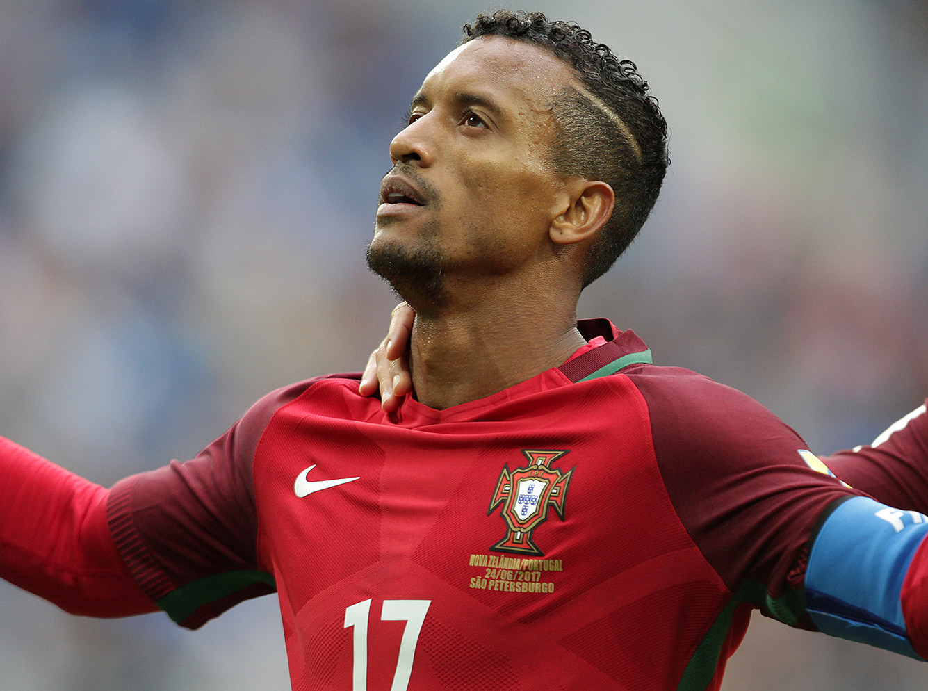 New Zealand VS. Portugal 0 - 4, 24 June 2017